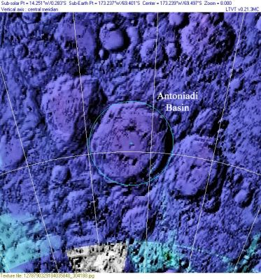 Clementine LIDAR Altimeter-coded shaded relief image